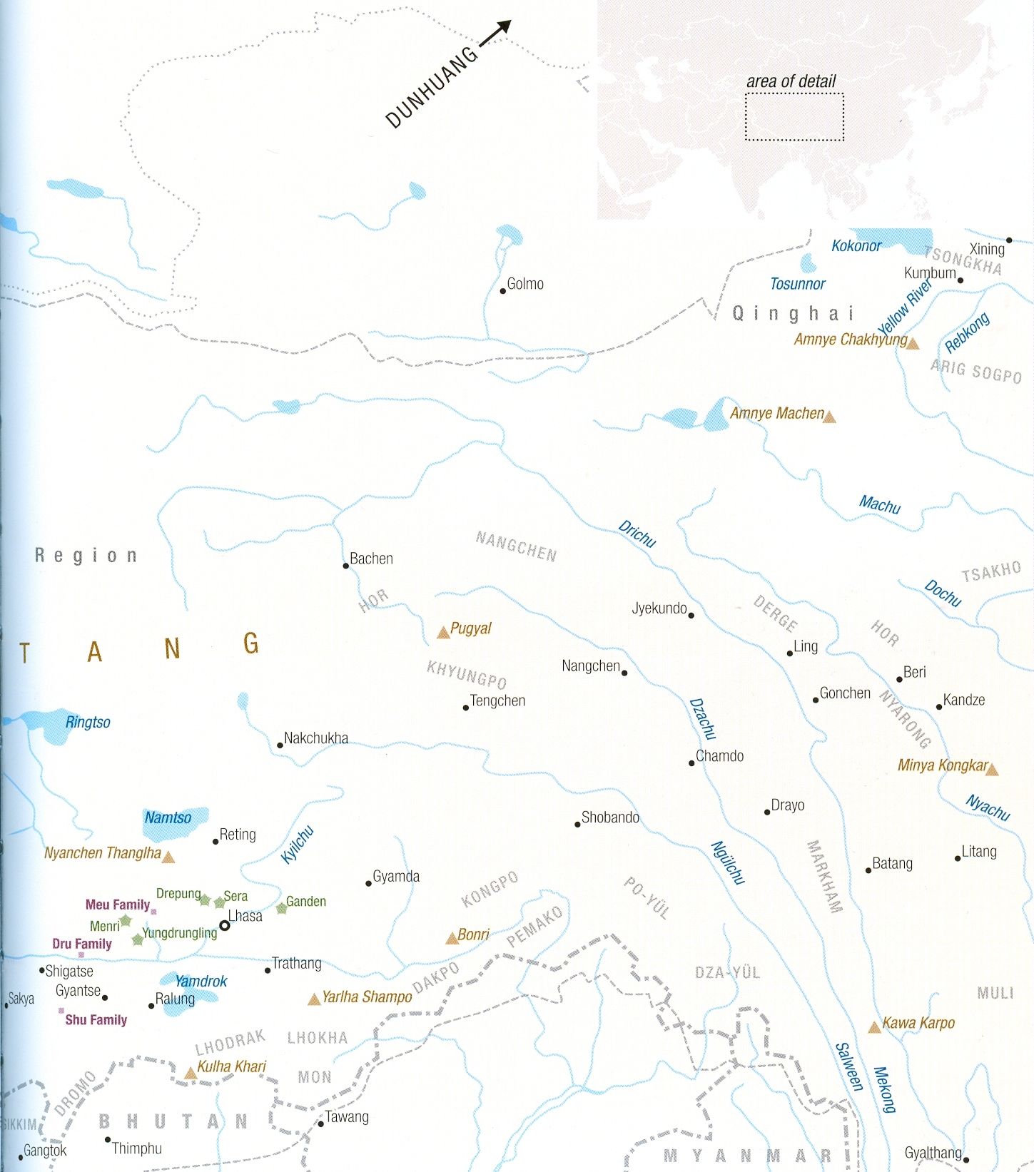 Locations of the Bon religion in the East Tibet. Schematic map